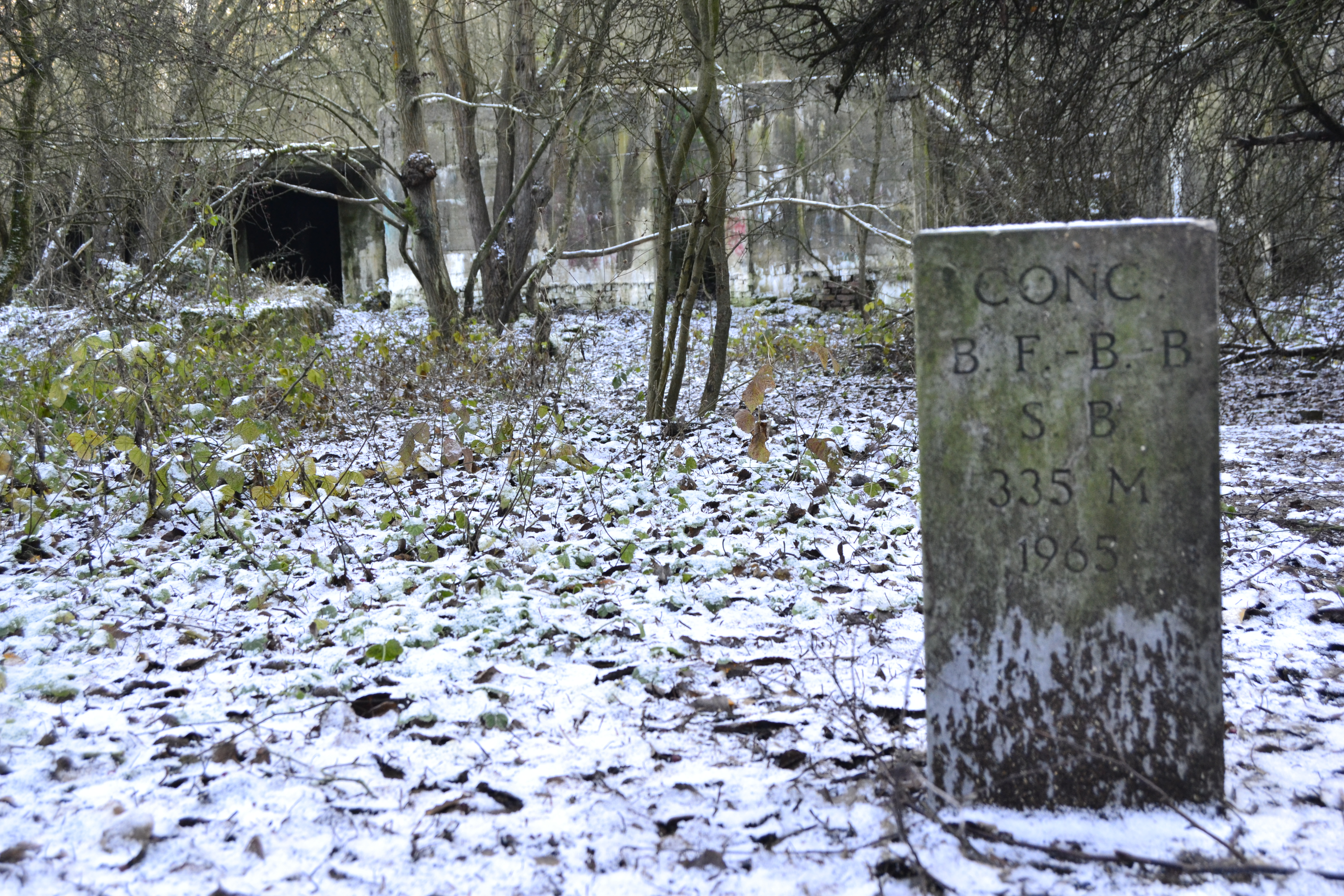 Ancient pit of the Sainte-Barbe coal mine inLiège, Belgium